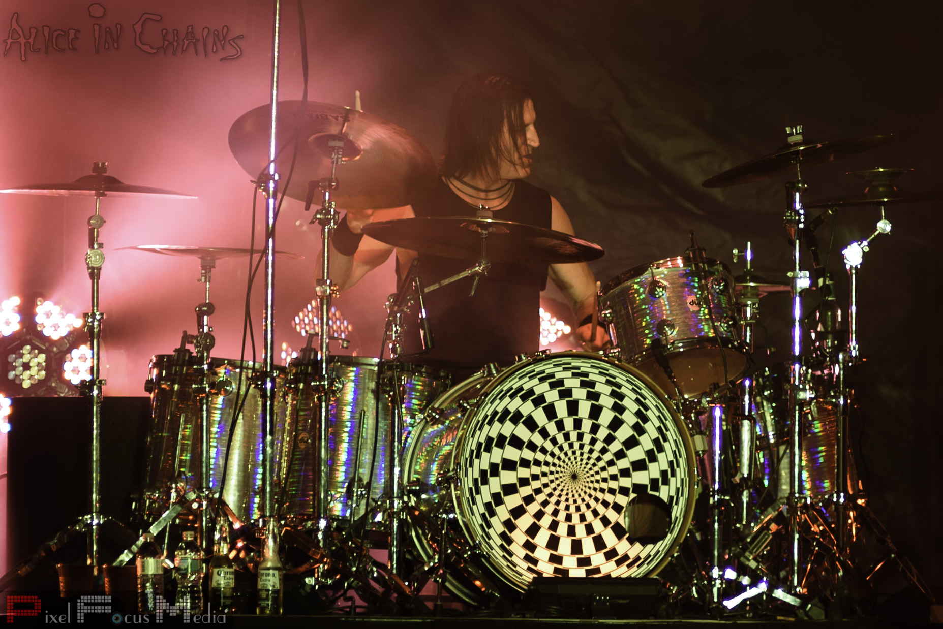 Sean Kinney live at 2016